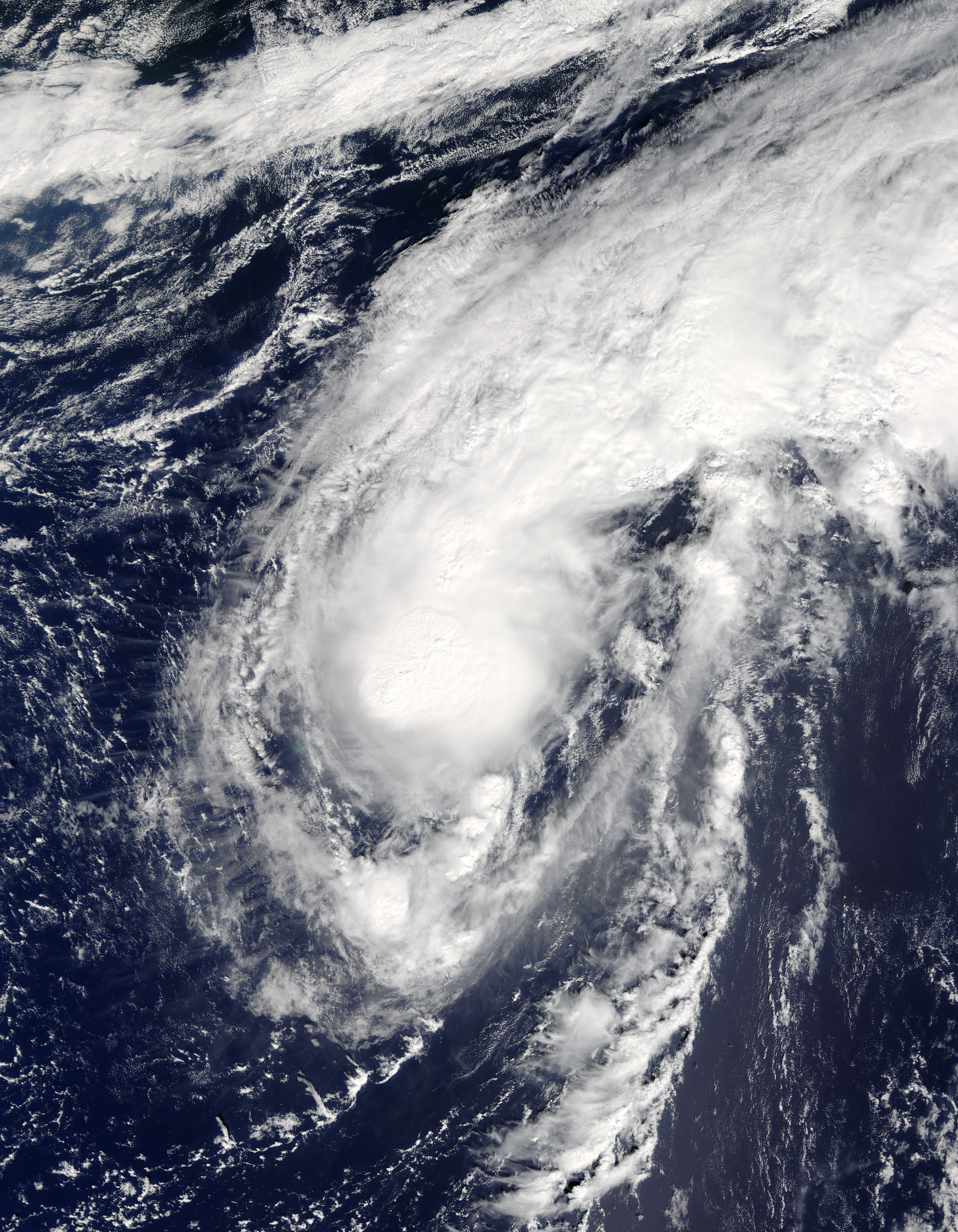 Tropical Storm Karl shortly after its peak intensity on September 24, 2016